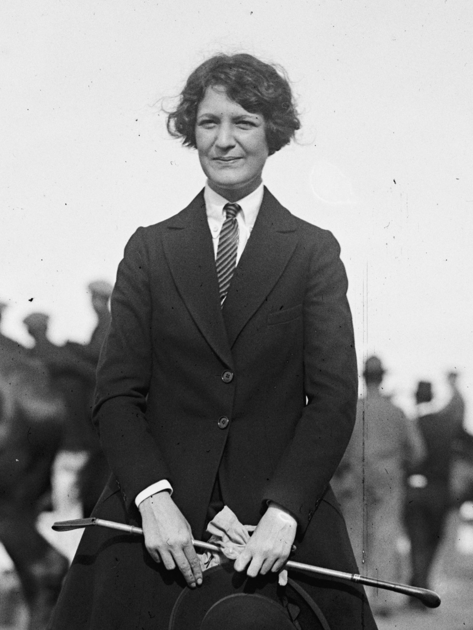 Title: Alisa Mellon, 5/16/23 Abstract/medium: National Photo Company Collection (Library of Congress) Physical description: 1 negative